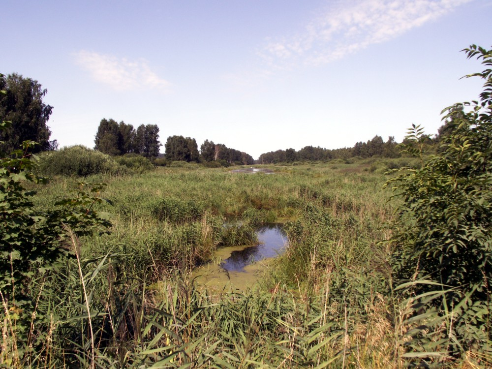 Canal Venta-Dubysa (1828-1831), Lithuania